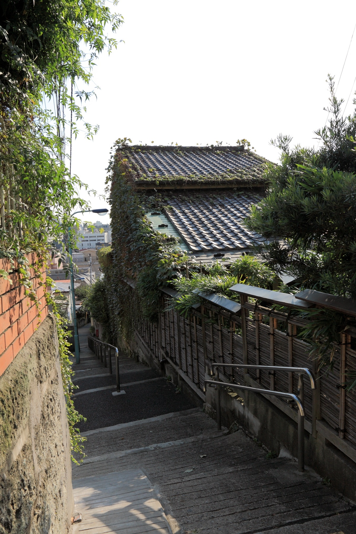 Hinashisaka (Mejirodai)